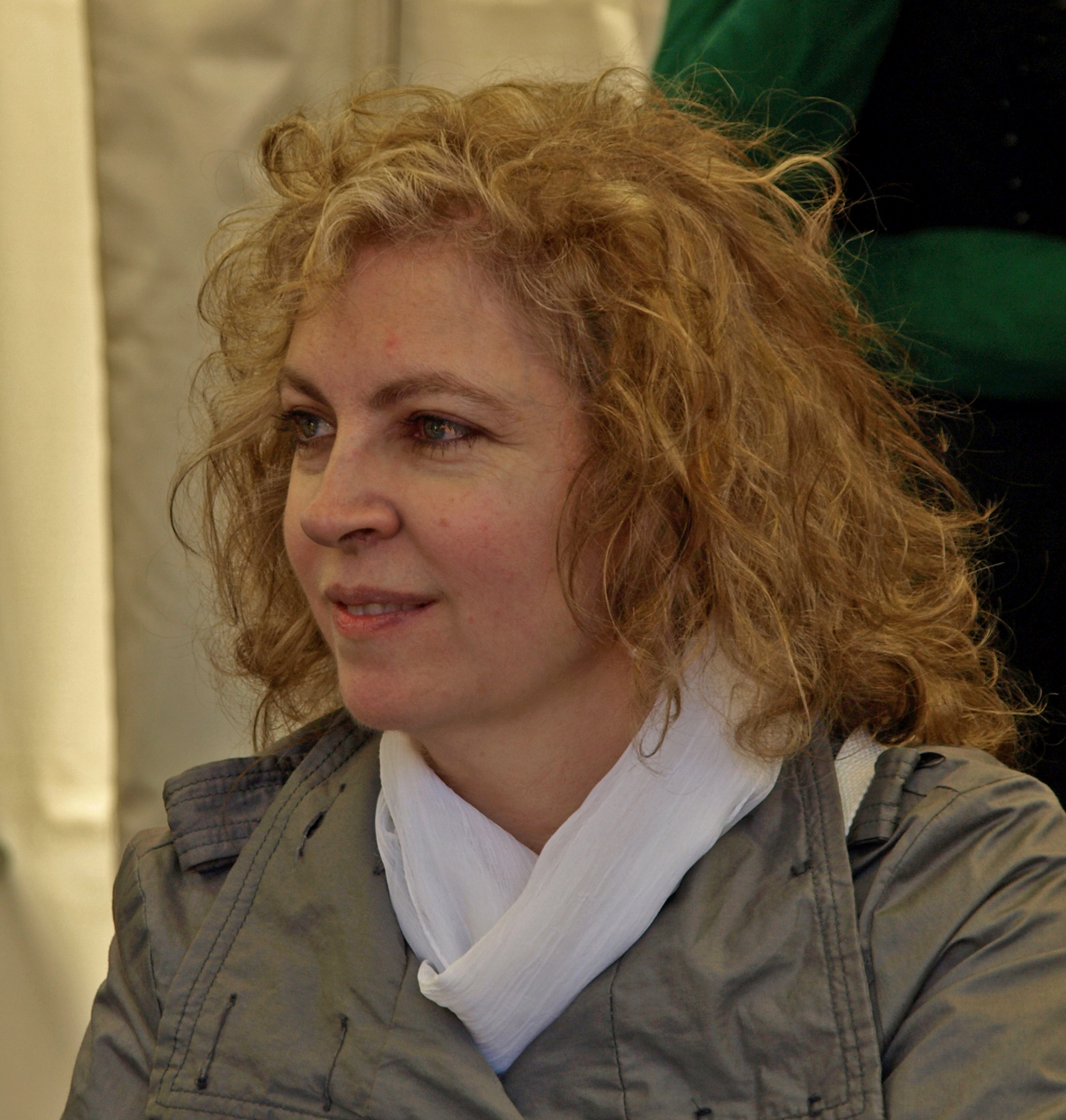 Maria Carme Roca i Costa (Barcelona, 1955) is a Spanish writer.